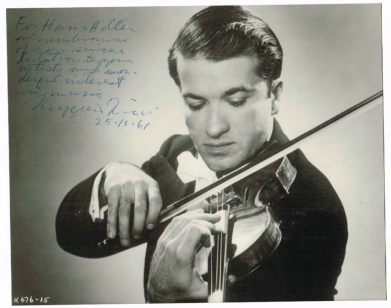 photo dedicated to Hans Adler for arranging three music tours of Southern Africa Other information in Hans Adler Memorial Museum, Witwatersrand University, South Africa